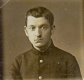 Doctor of Juridical Sciences, Professor Irodion Surguladze